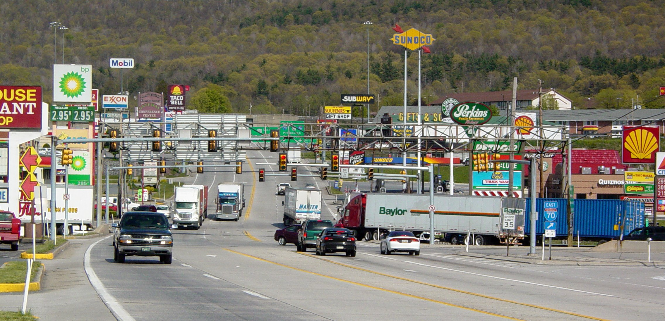 View of Breezewood, Pennsylvania from the northwest end of the commercial strip. I-70 is visible in the foreground.